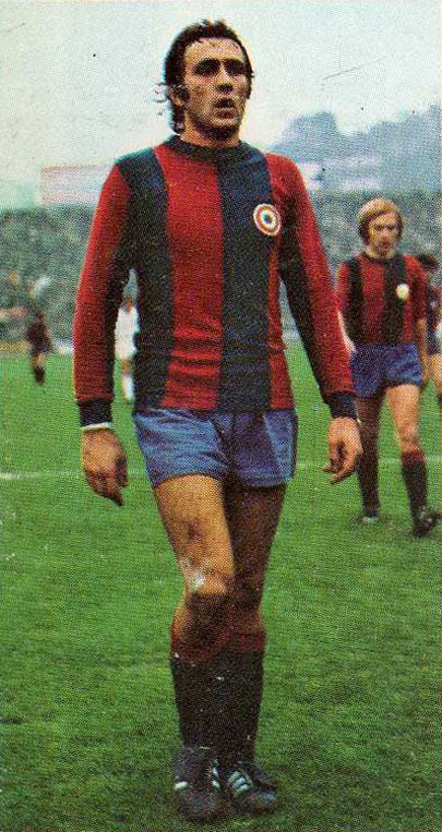 Italian footballer Mauro Bellugi with Bologna F.C. in the 1974–75 season.